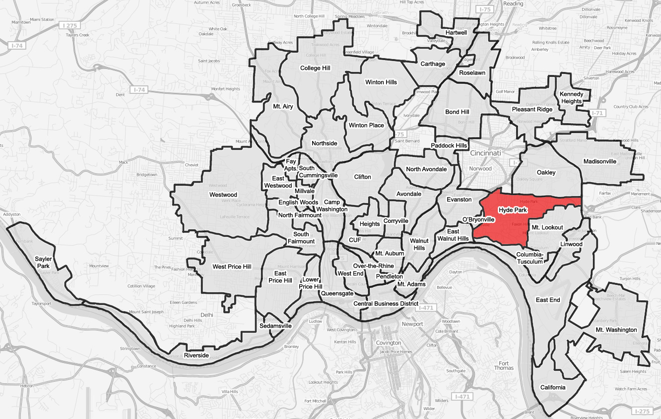 A map of the neighborhood of Hyde Park within Cincinnati, Ohio. Neighborhood lines are based on information from This street map is derived from a free map.